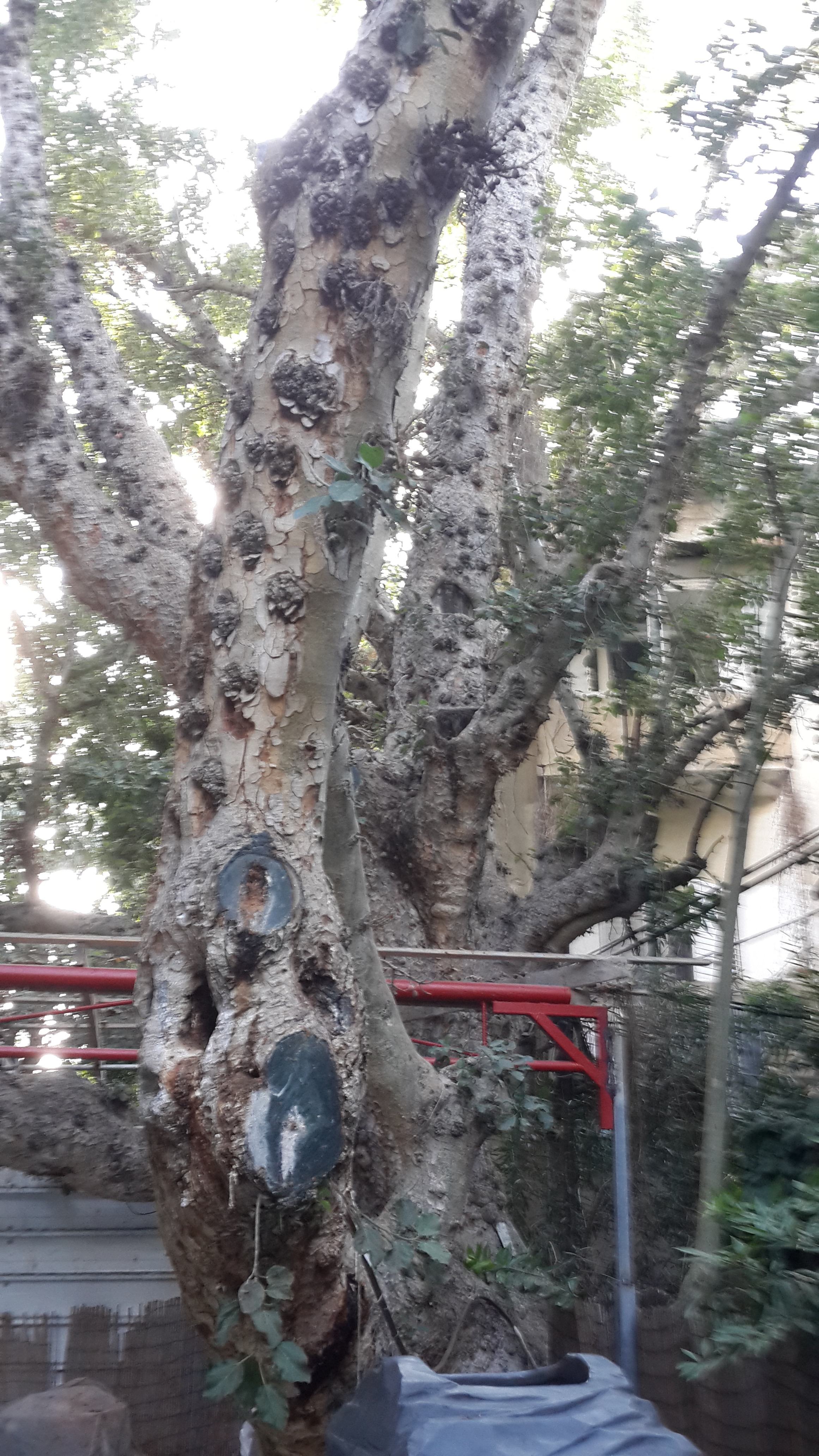 Ficus sycomorus at Mazeh Street, Tel Aviv-Yafo